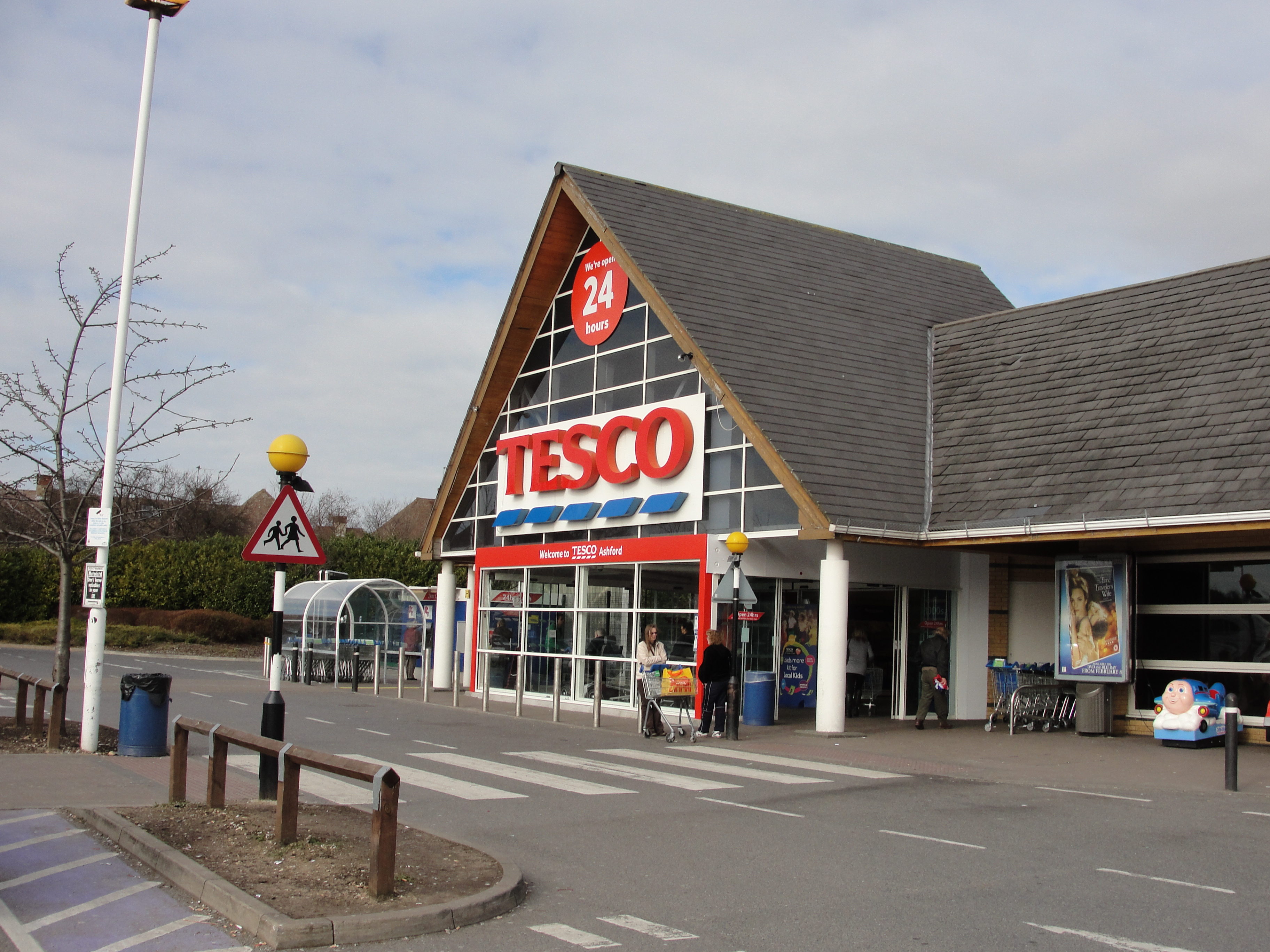 Tesco supermarket in Ashford, Middlesex (now Surrey)